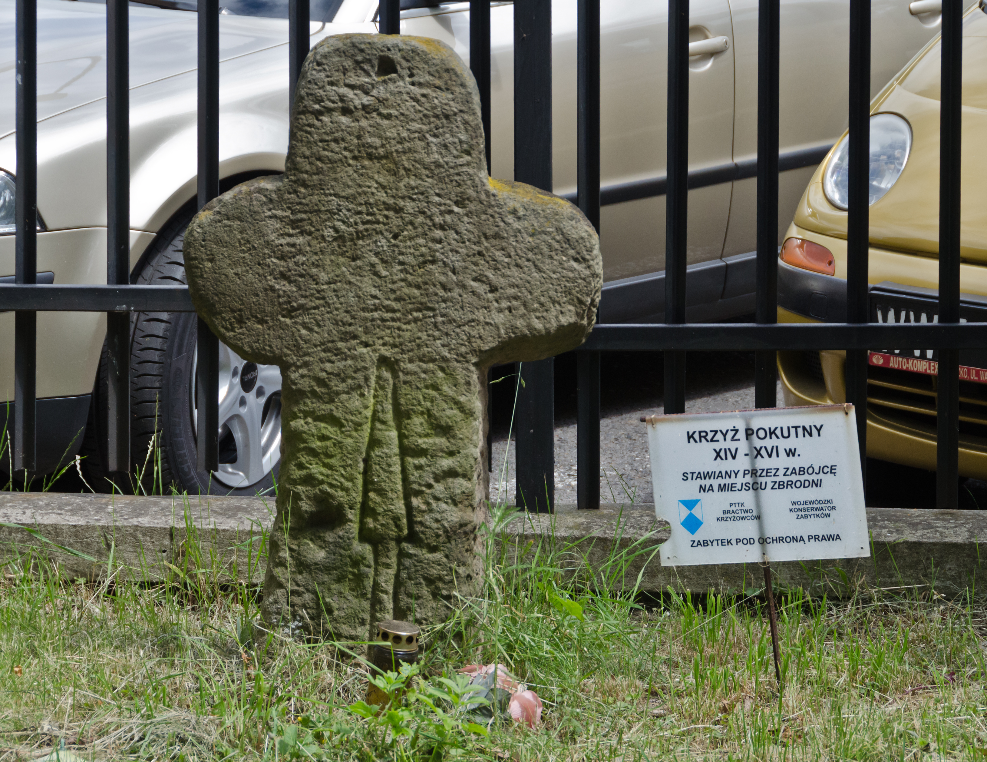 Cemetery in Kłodzko, stone cross